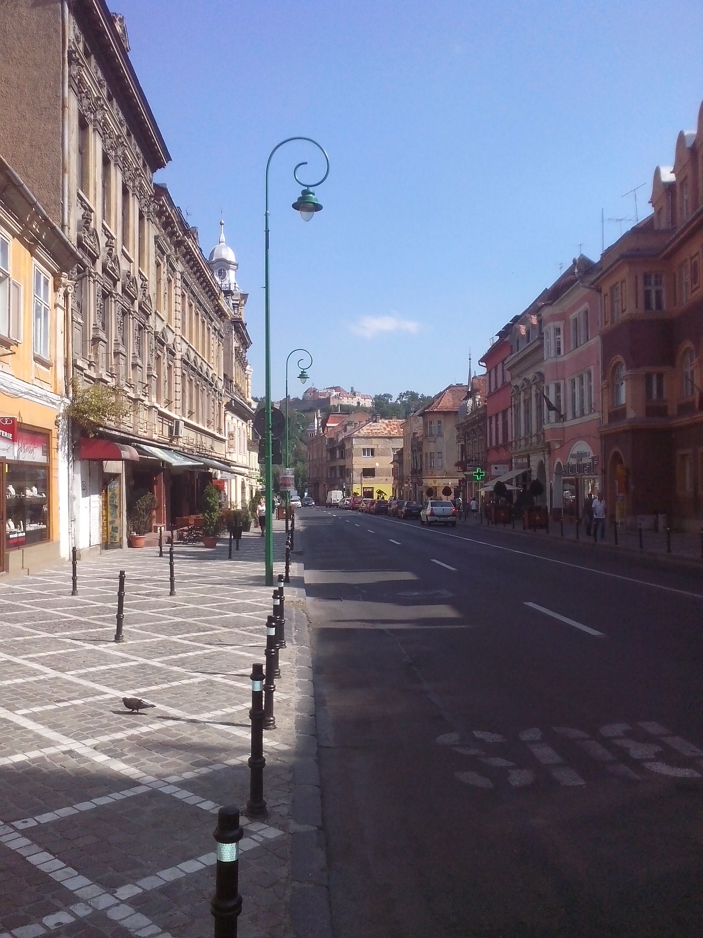 View towards The old Fortress